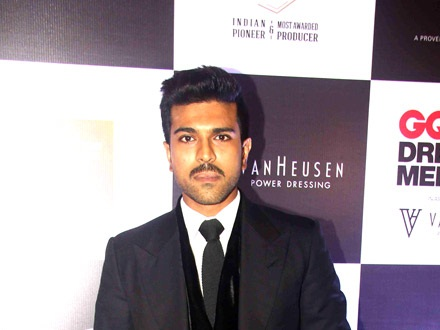 Actor Ram Charan at the GQ Best Dressed Men 2016 ceremony held in June 2016.